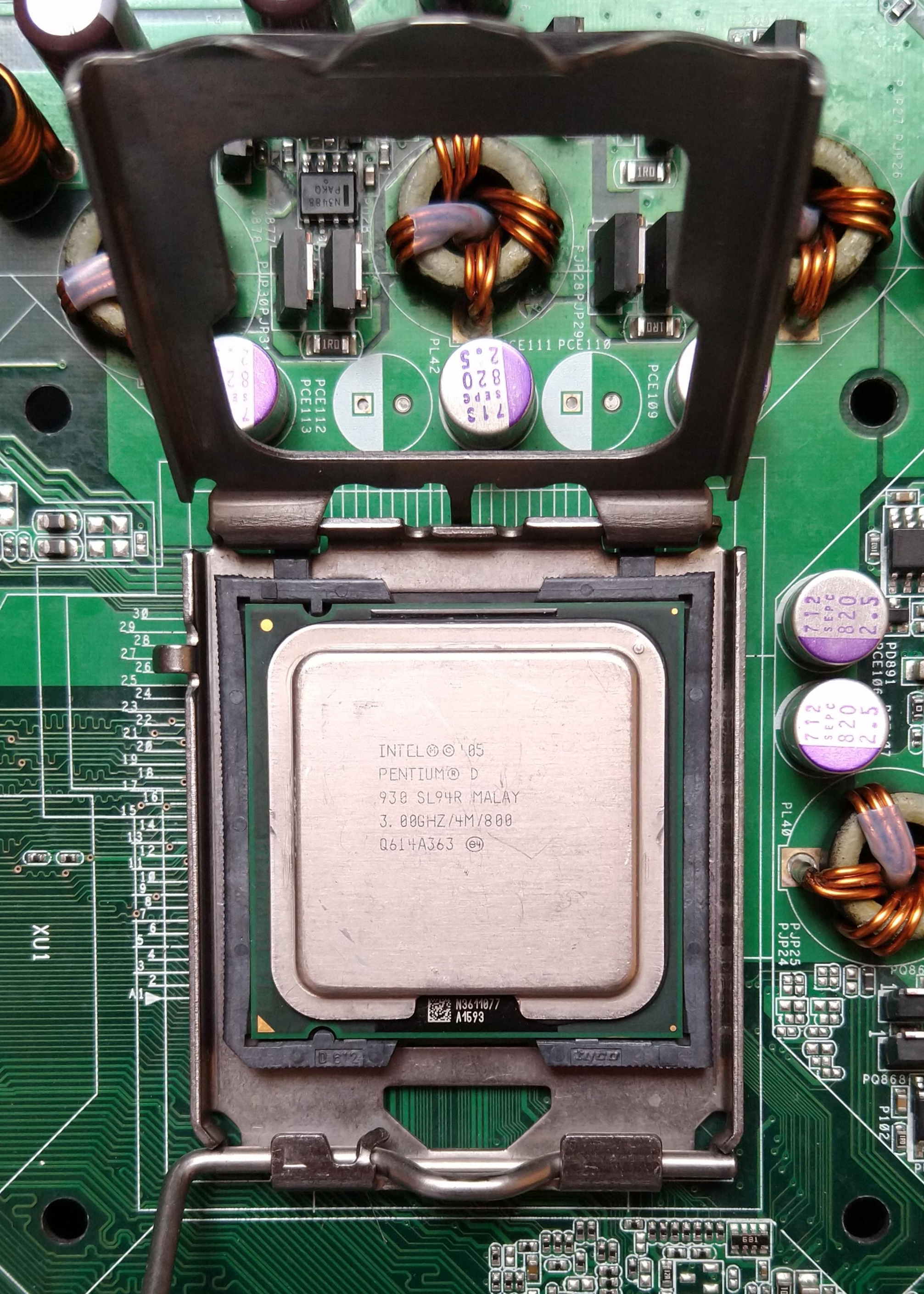 Intel Pentium D 930 3.00GHz 4MB Cache, LGA775 installed on a Intel D45GCCR motherboard